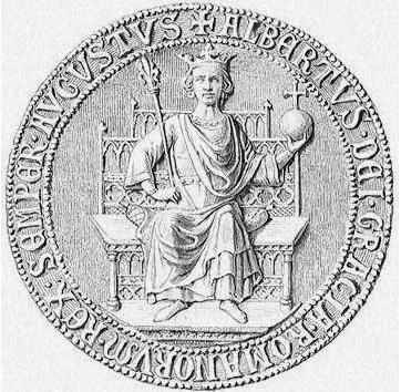 Albert I of Habsburg